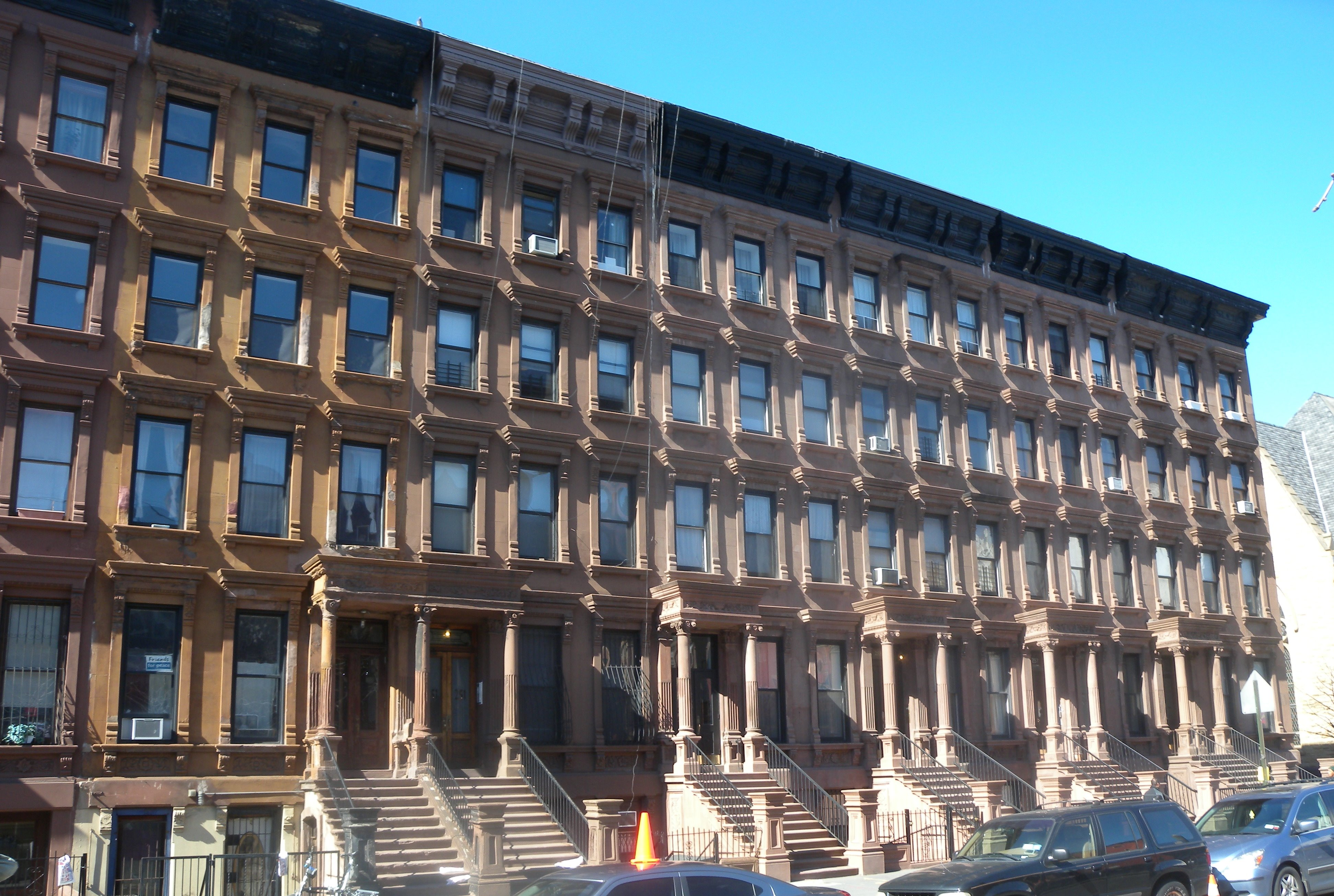 Looking north across Lenox Avenue from 122nd Street at row houses and 123rd Street on a sunny midday.